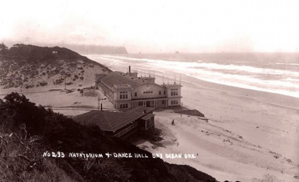 The dance hall (foreground) and natatorium (background) that once existed in historic Bayocean Oregon.